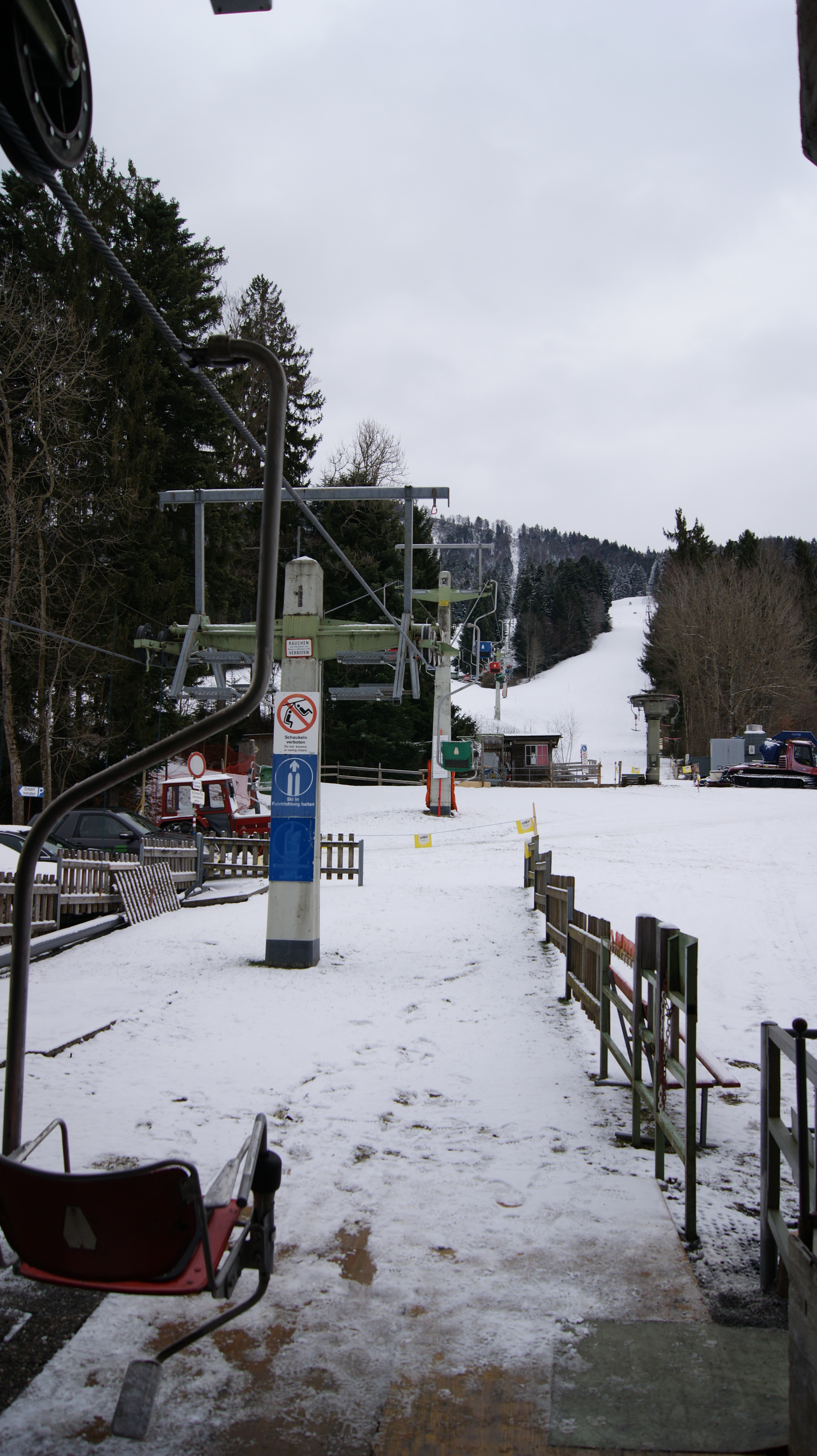 View to the Track of the 1-Person-Chairlift (fixed grip) up to the "Brueggelekopf" (mountain) in Alberschwende (1967-2018) from the valley station.